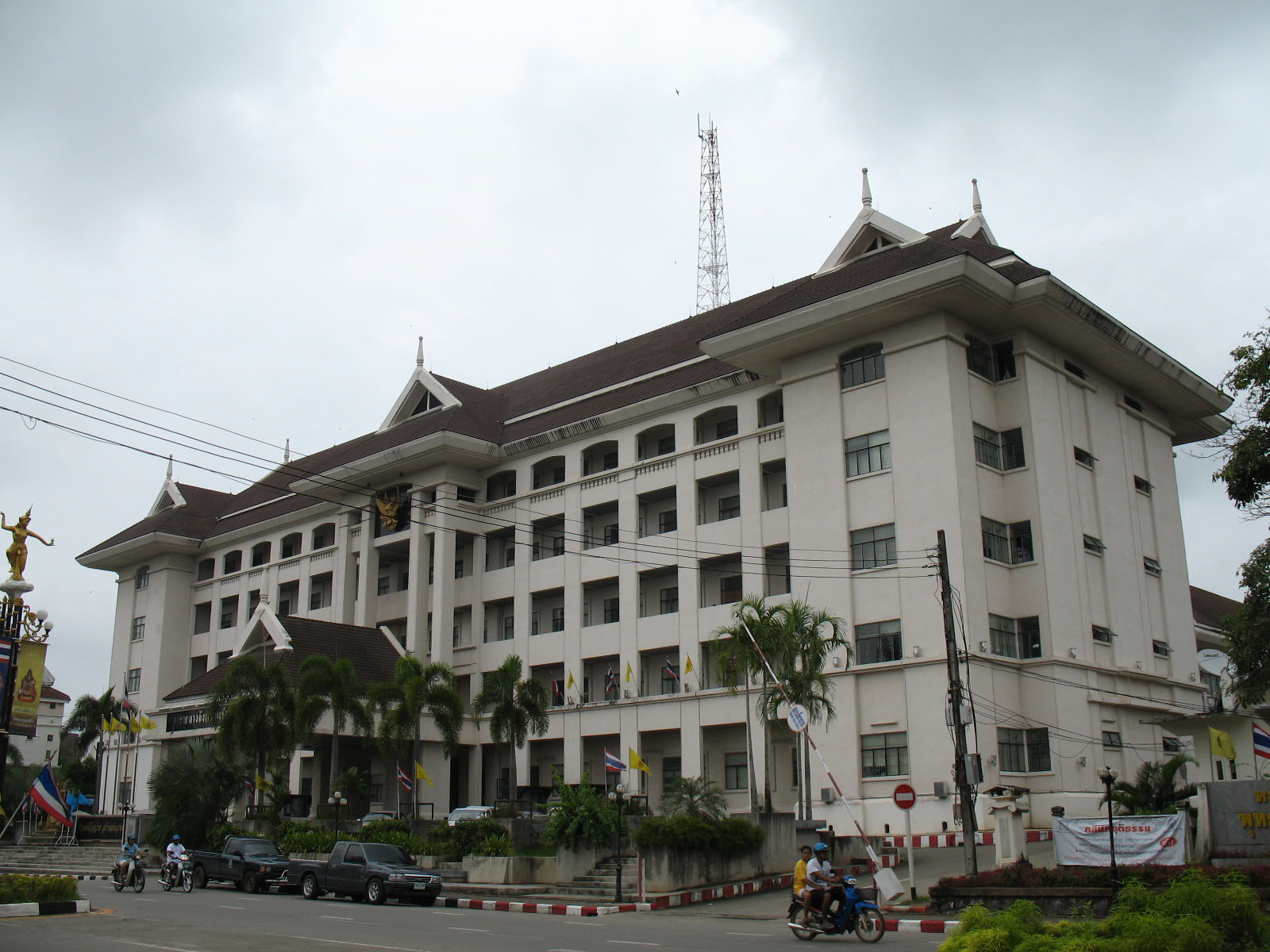 Trang City Hall.